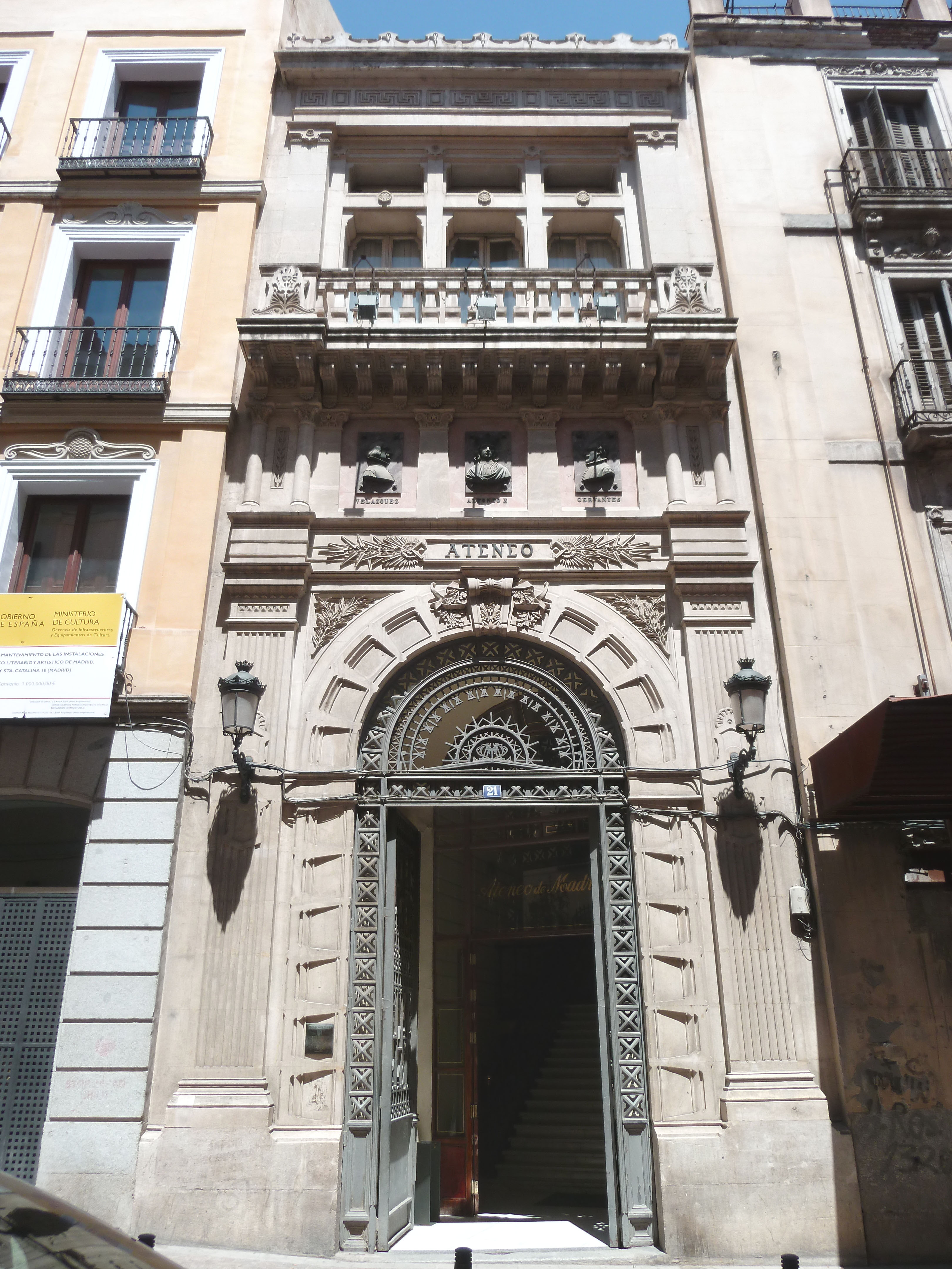 Façade of the Athenæum of Madrid (Spain), at 21st Calle del Prado (street) in Centro district. Building was projected in 1882 by Enrique Fort Guyenet, Luis de Landecho and Jordán de Urríes, and built from 1882 to 1884.